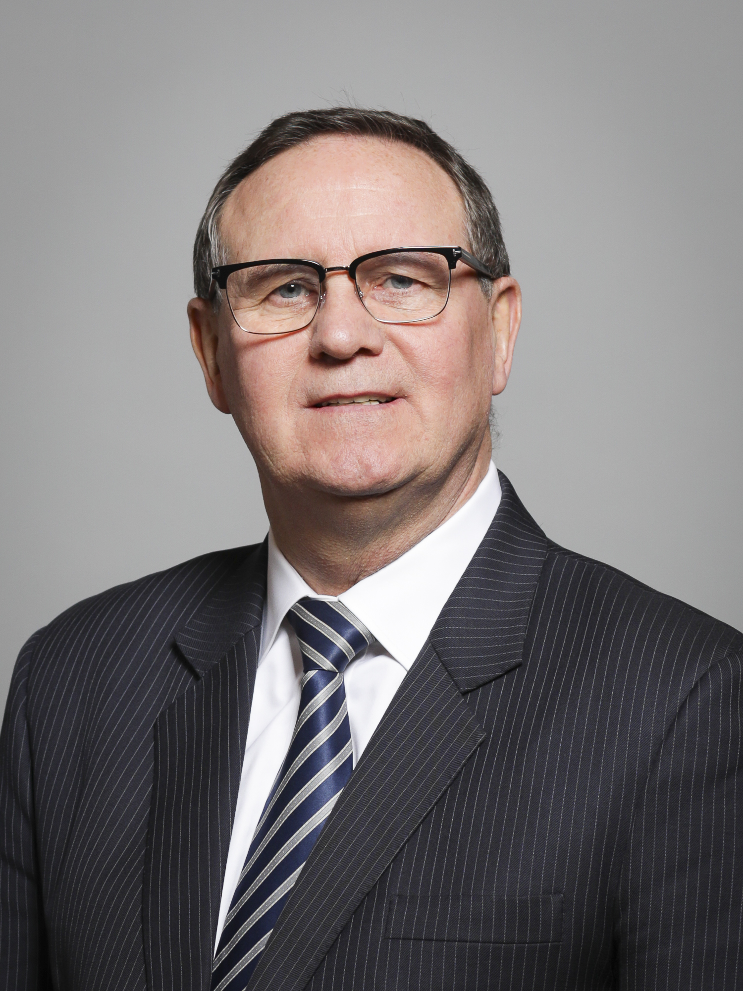 Official portrait of Lord Haughey 3×4 portrait of Lord Haughey